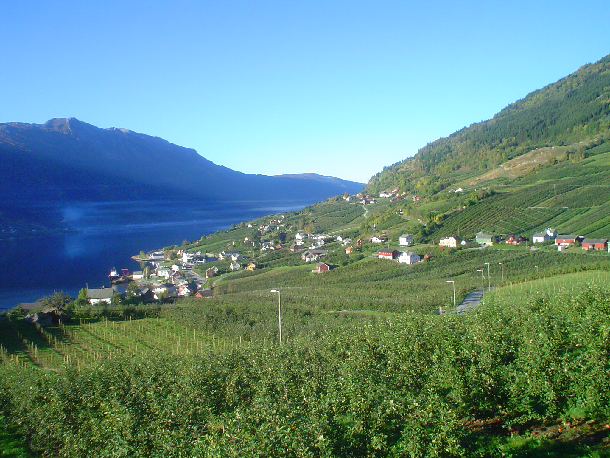 Opedal, in Ullensvang, Norway in September 2004